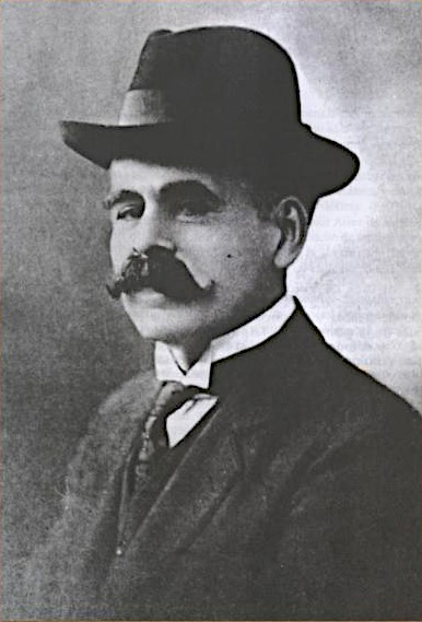 Ángel Gregorio Villoldo Arroyo (16 February 1861 -14 October 1919) was an Argentine musician and one of the pioneers of tango. He was born south of the city of Buenos Aires. He was lyricist, composer and one of the major singers of the era. He is also known by the pseudonyms A. Gregorio, Fray Pimiento, Gregorio Giménez, Angel Arroyo and Mario Reguero.